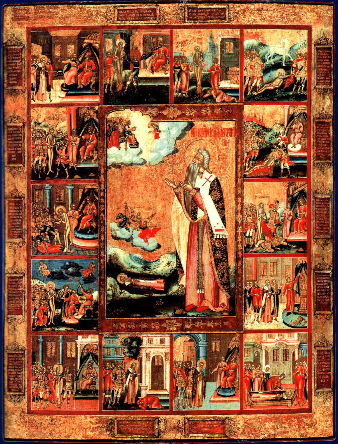 Priest Harlampiy, with a life of 14 stamps 19th century. Palekh.